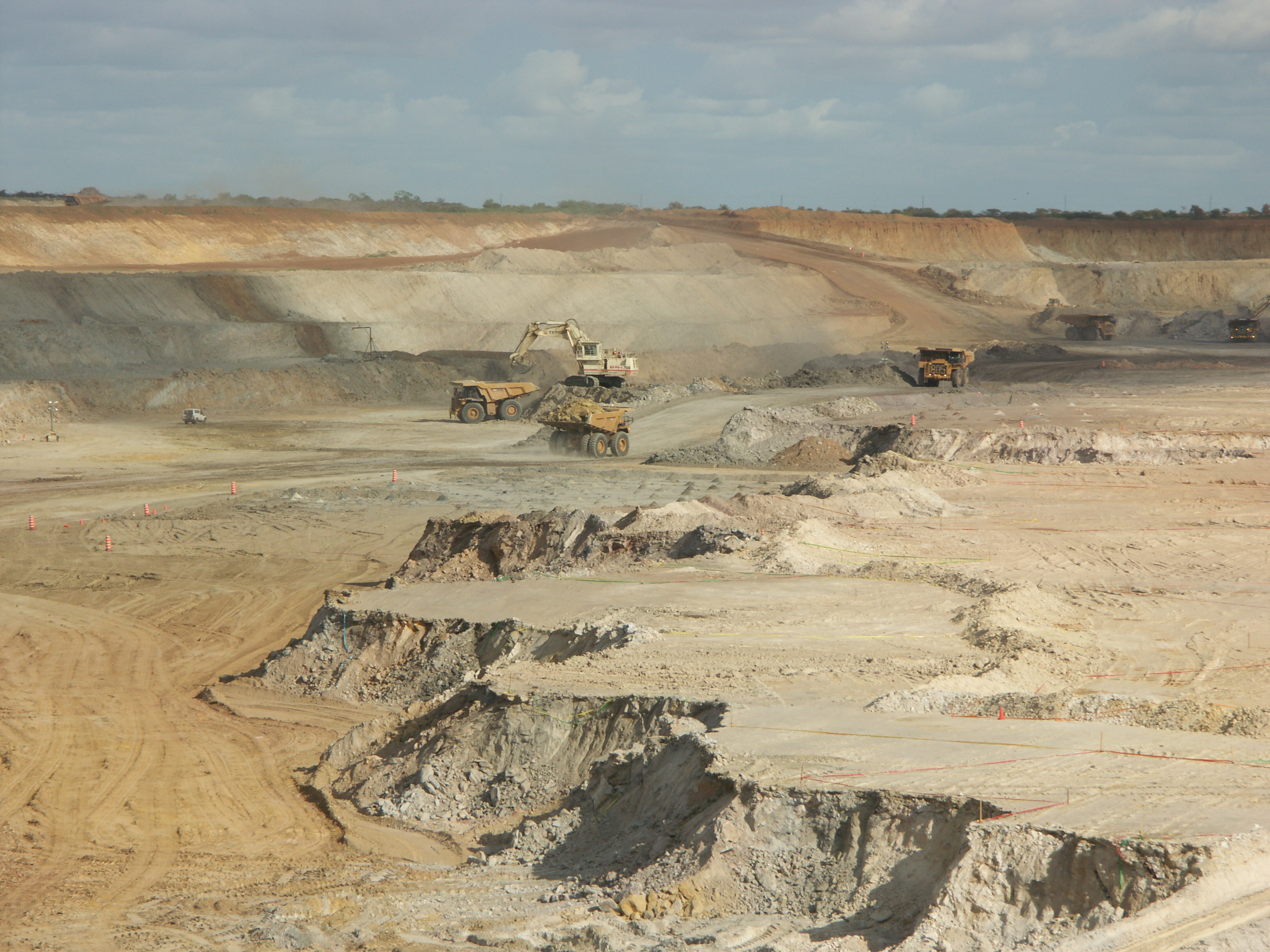 Essakane Mine pit in Burkina Faso.